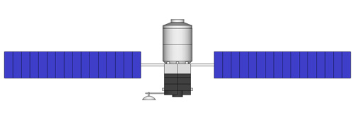 A drawing of the cancelled Columbus Man-Tended Free Flyer as it was envisioned in 1991. Proportions not to scale.